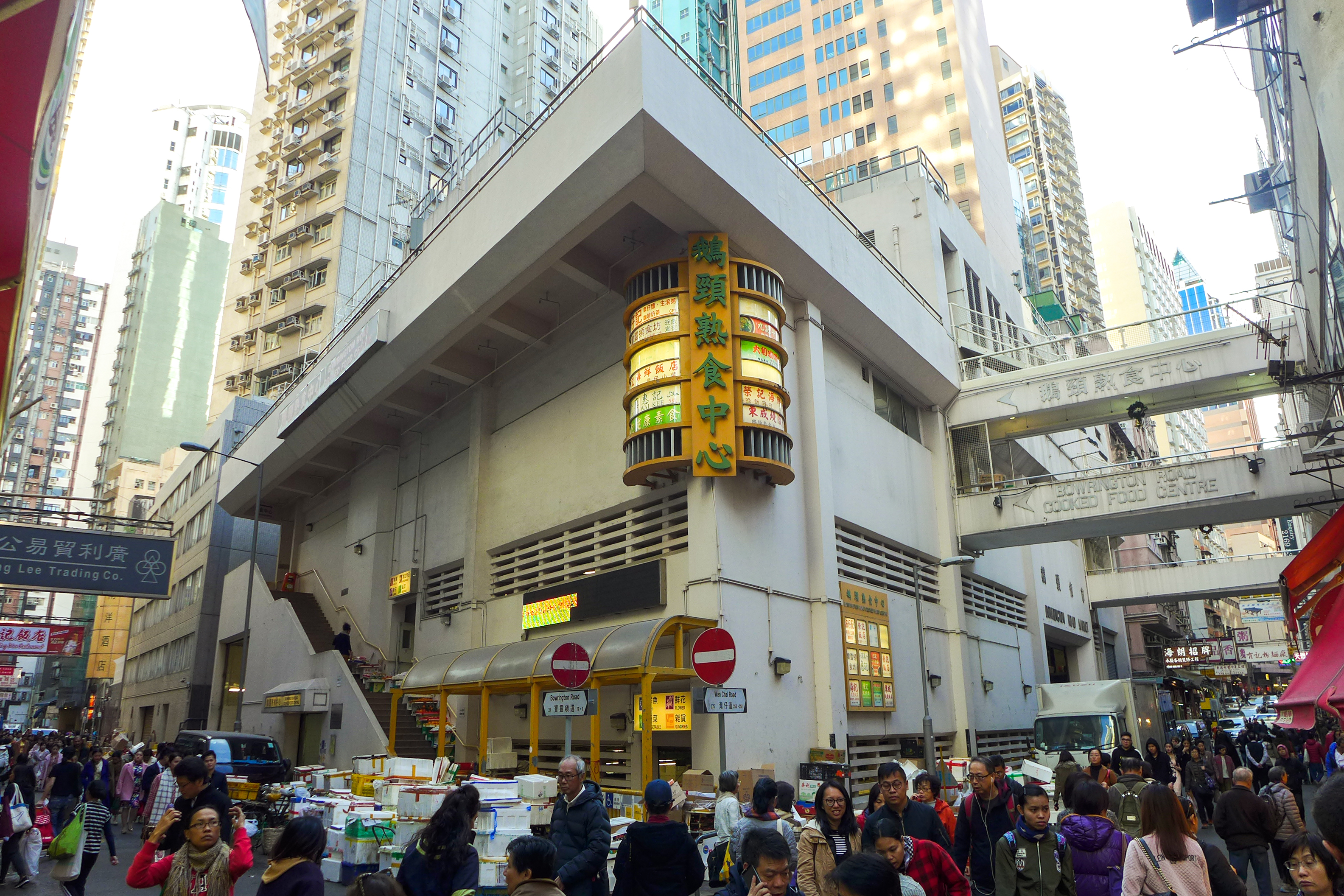 Bowrington Road Market